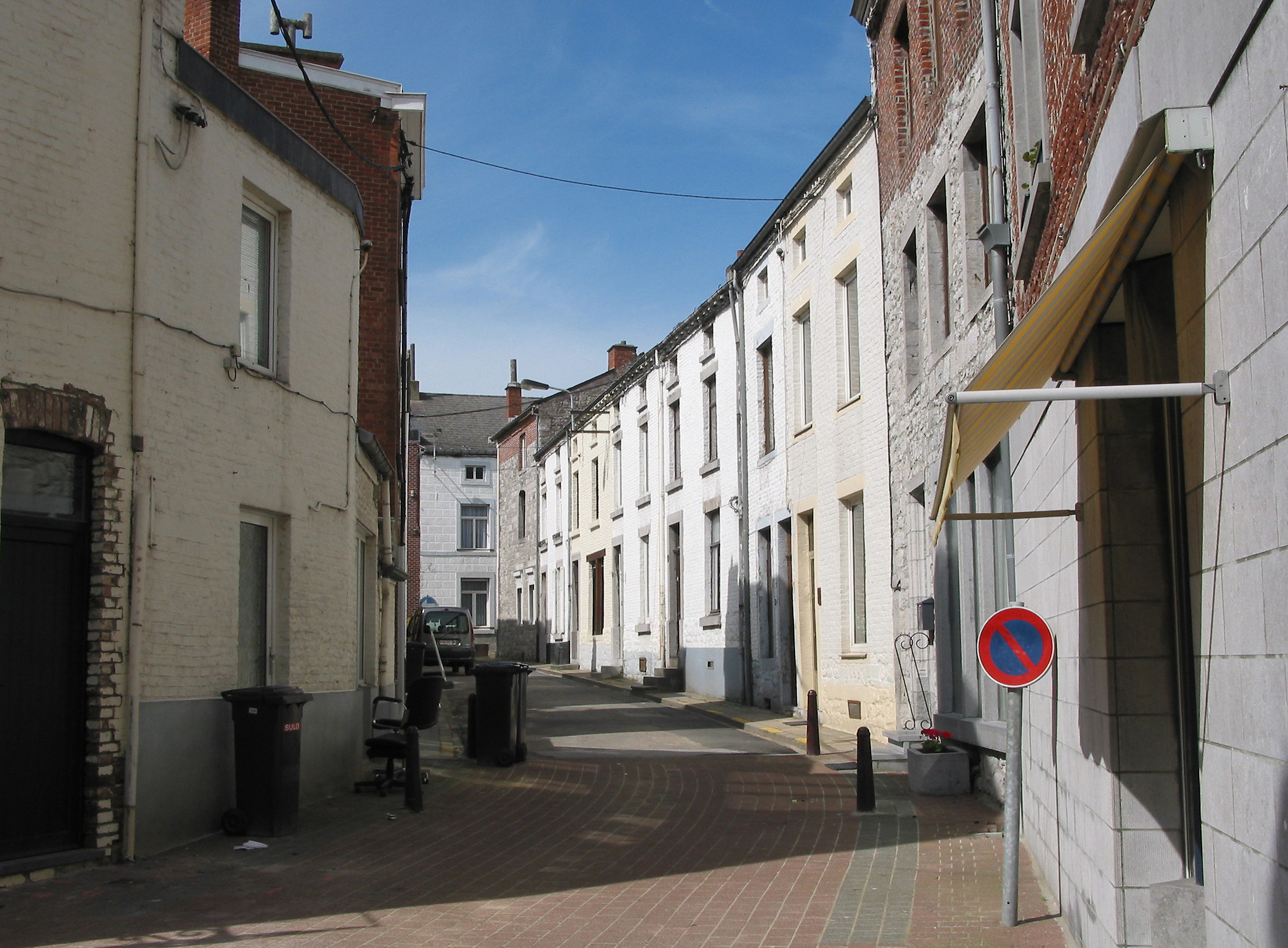 Florennes (Belgium), an old neighbourhood of the town.